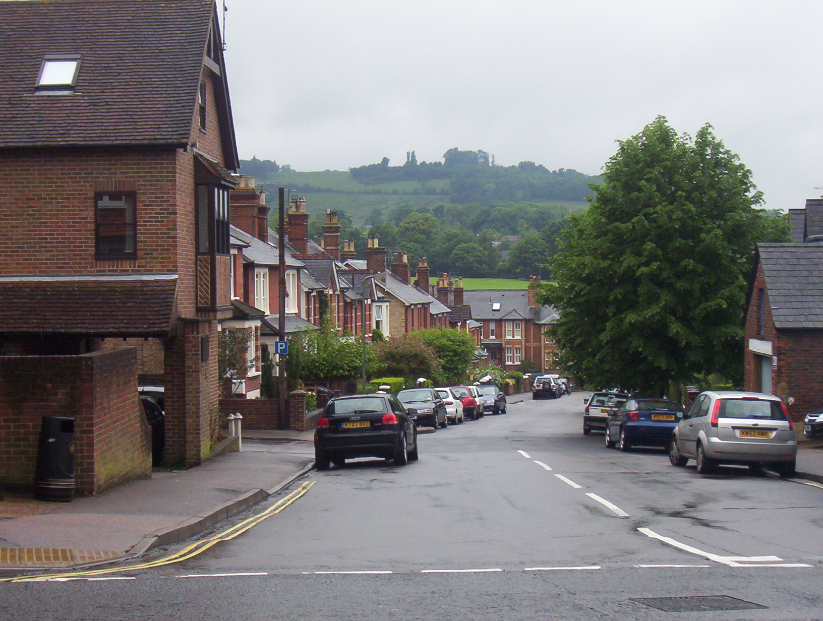 Eastern view from High Street in Dorking, Surrey, UK.